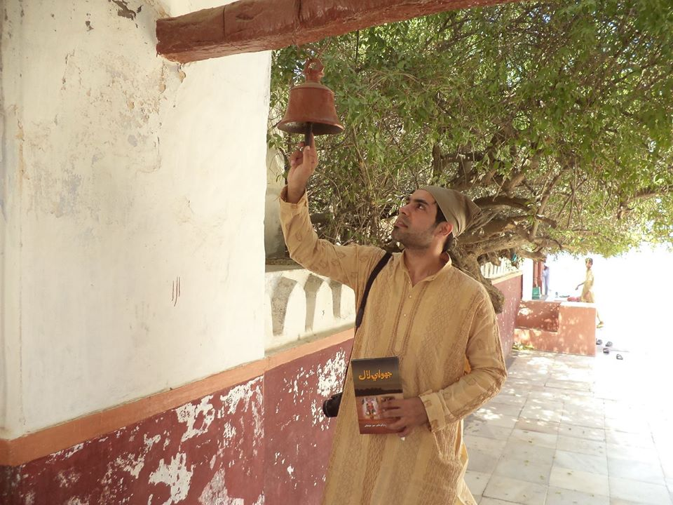 Ringing the bell is a traditional style for marking of attendance while entering the shrine